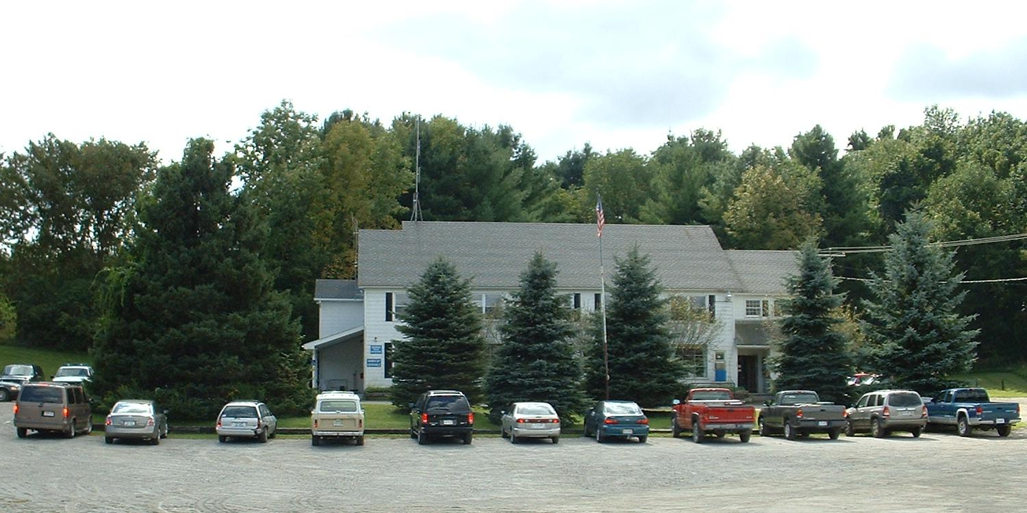 Egremont Town Hall, Egremont, Massachusetts Egremont Town Hall, Egremont Plain Rd (Rte. 71), Egremont, MA